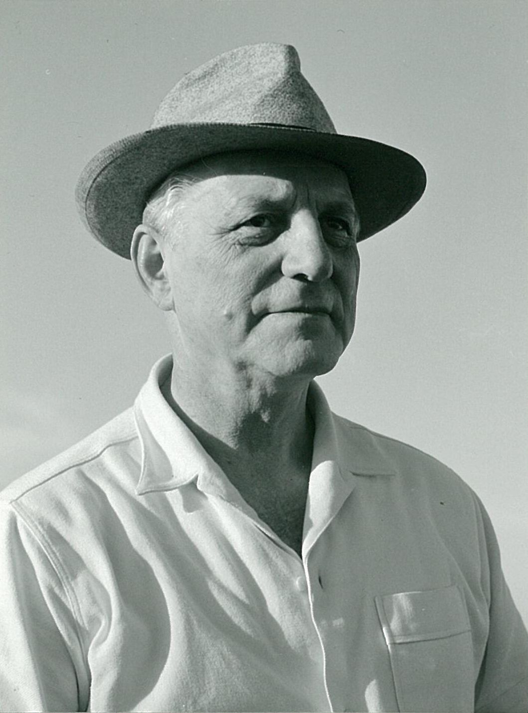 Kurt Binswanger, ca. 1953